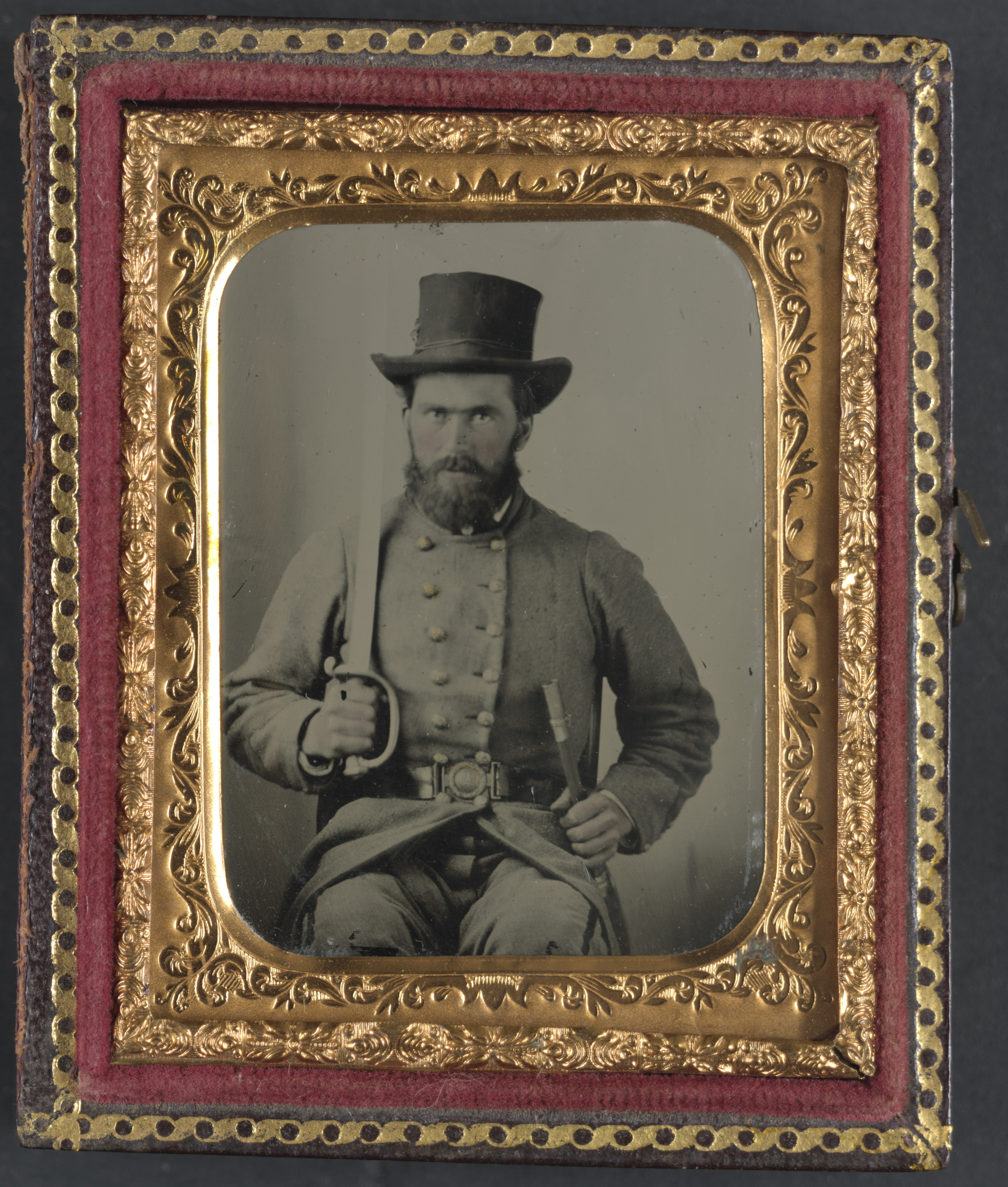 Title: Private Luther Hart Clapp of Company C, 37th Virginia Infantry Regiment, in uniform and two-piece Virginia state seal buckle with Boyle and Gamble sword Abstract/medium: 1 photograph : ninth-plate ambrotype, hand-colored 7.7 x 6.3 cm (case)